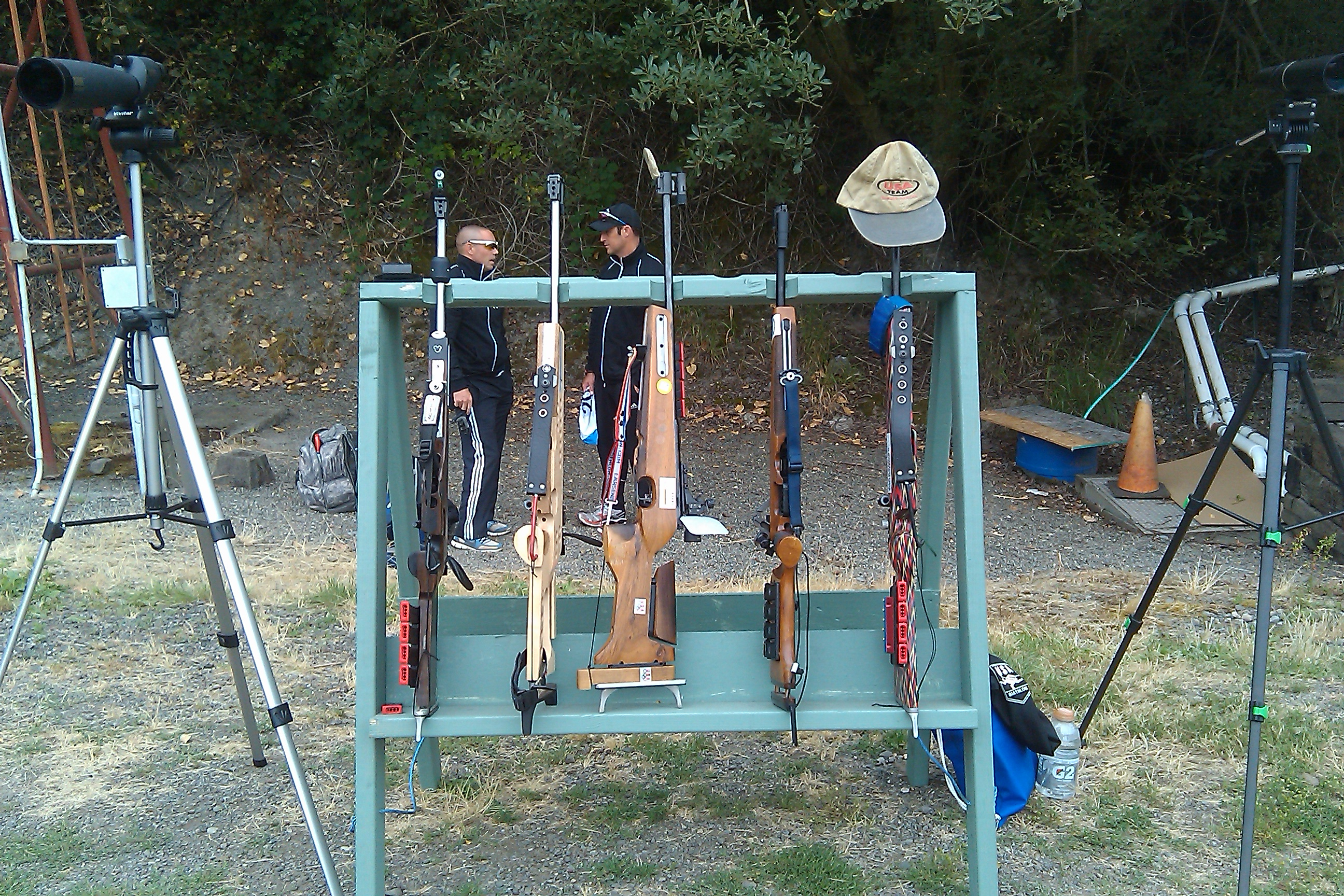 at the usba summer national championships